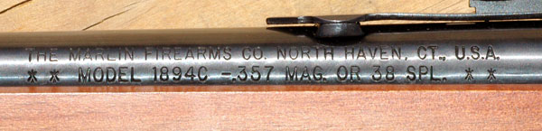 Marlin 1894C rollmark. Photo © by Jeff Dean.